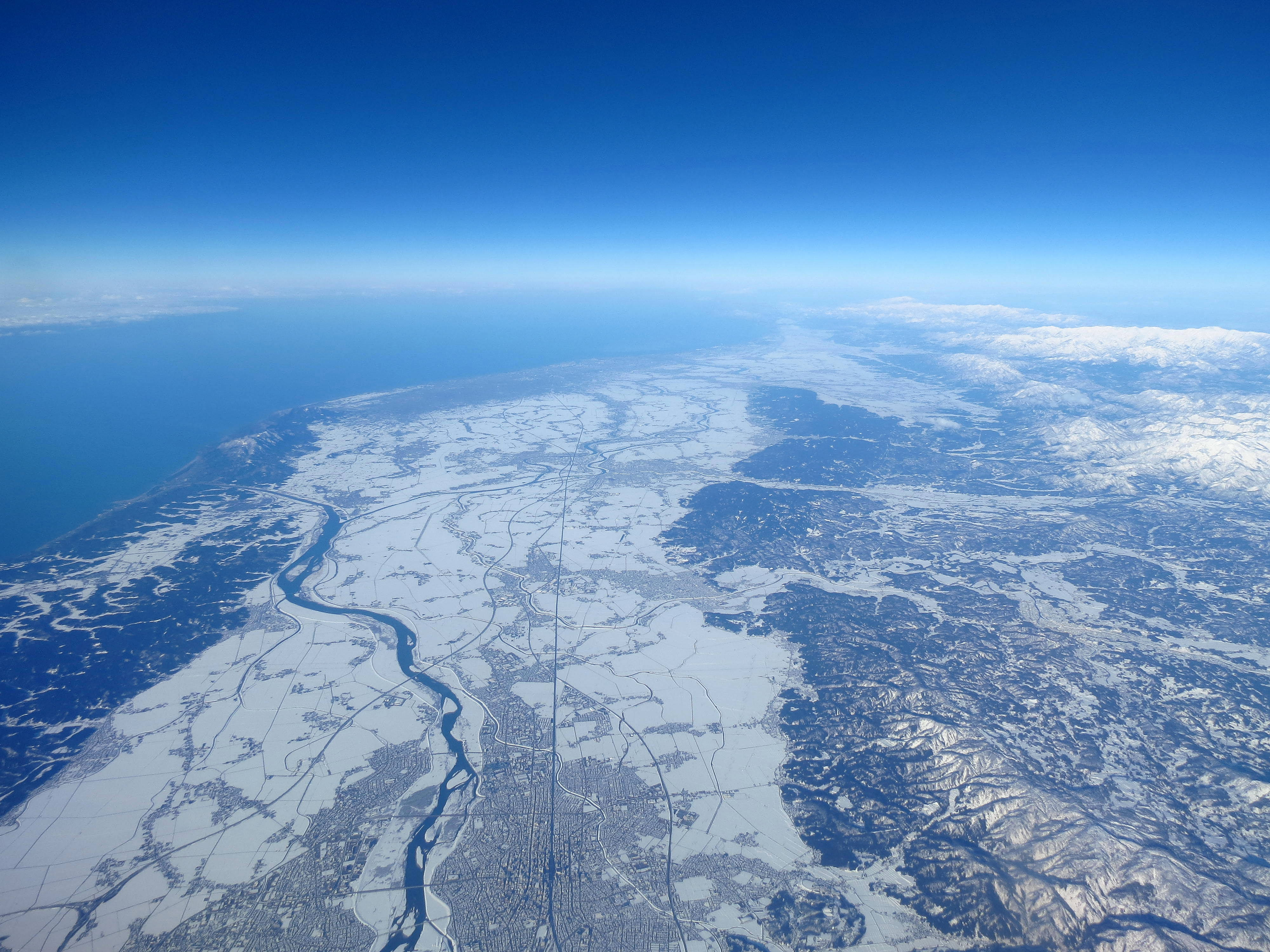 Nagaoka, Niigata in winter from the sky. The sea which can be seen in the photo is the Sea of Japan. The river that flows in the center is the Shinano River.